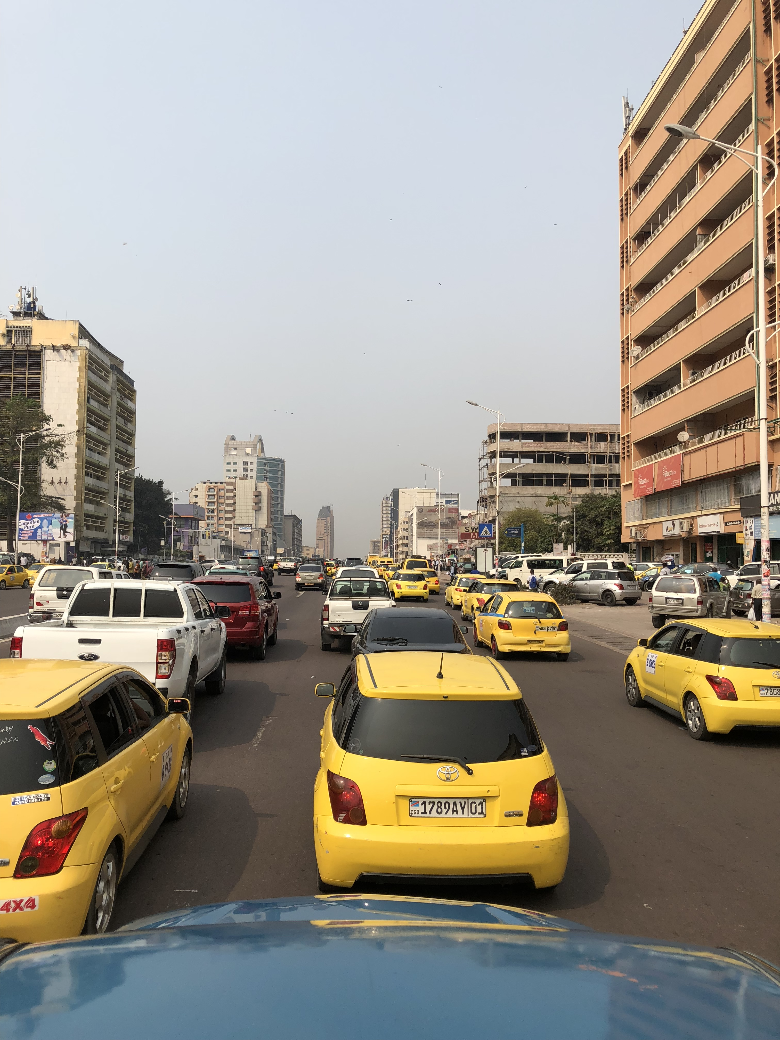 This is an image with the theme "Africa on the Move or Transport" from: Democratic Republic of the Congo